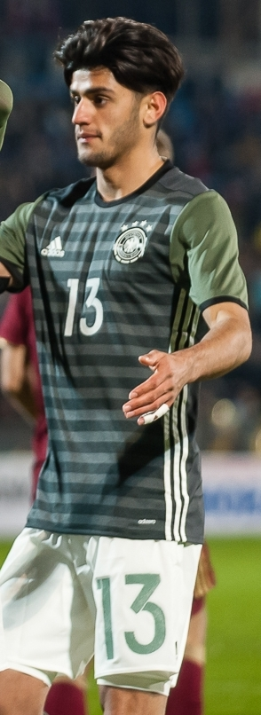 Mahmoud Dahoud